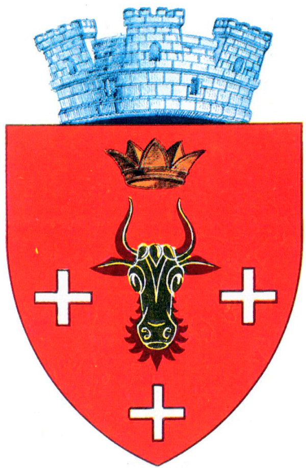 Interwar coat of arms of Siret, Rădăuți County, Kingdom of Romania.